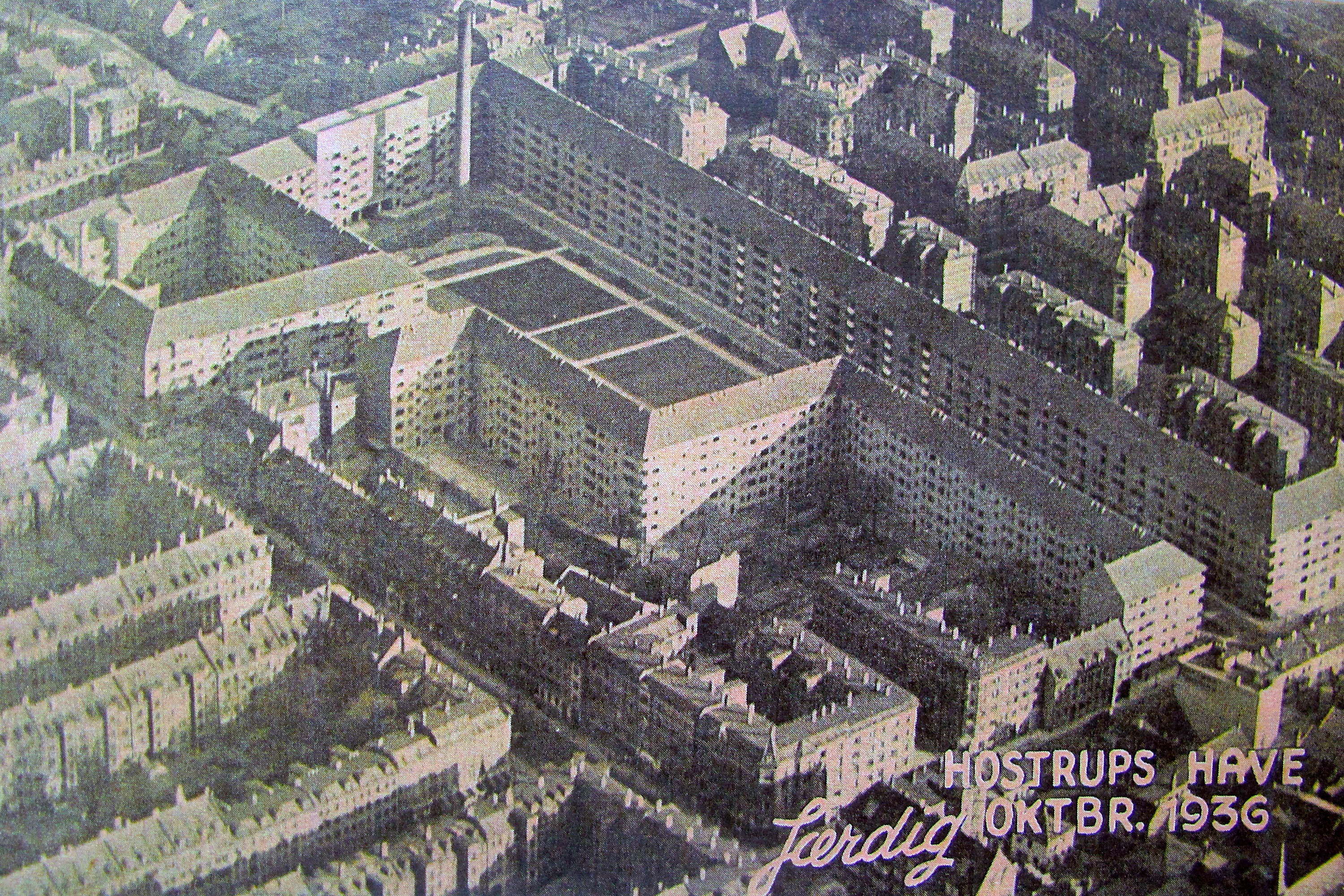 Hostrups Have with green gardens - anno 1936